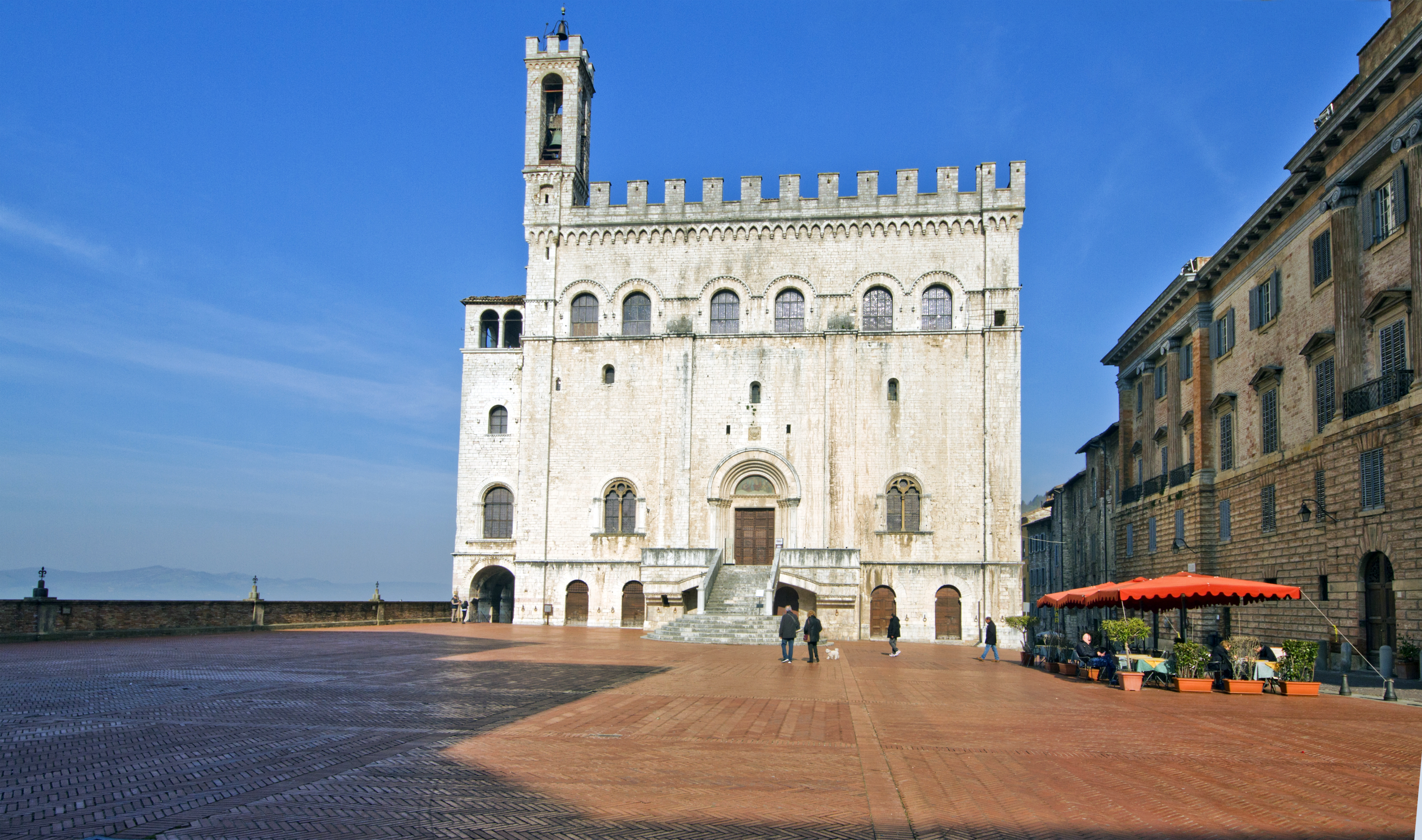 06024 Gubbio, Province of Perugia, Italy